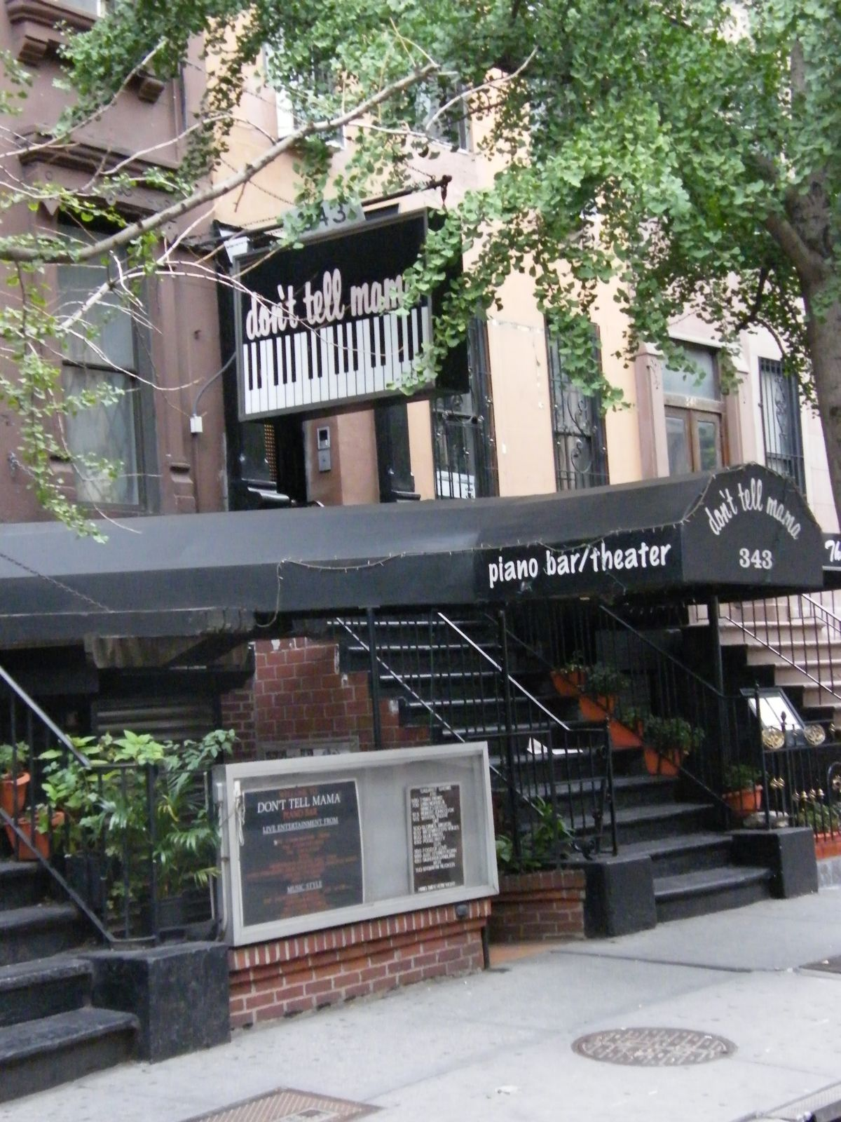 Don't Tell Mama